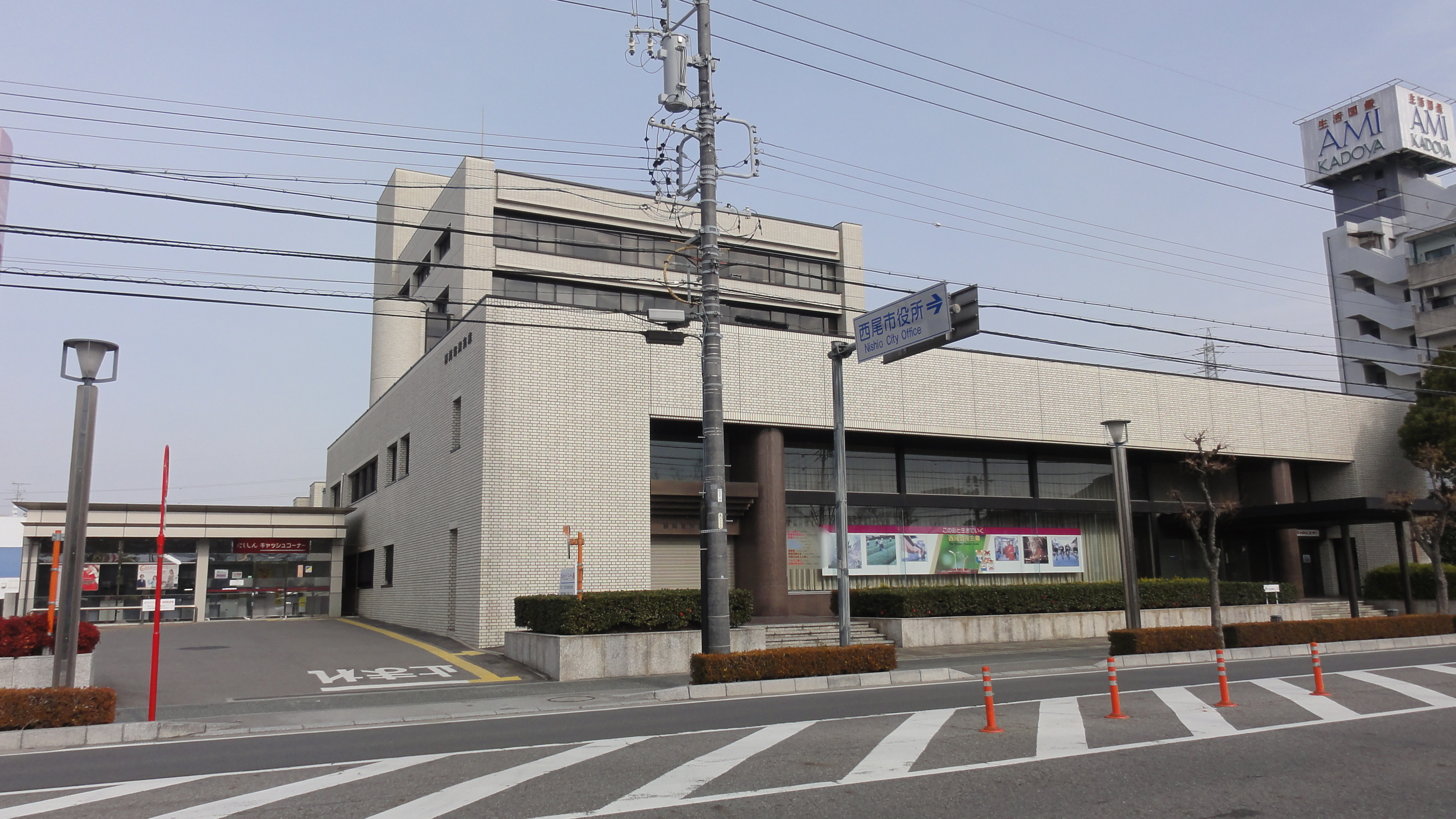 Nishio shinkin bank(Head office), Aichi prefecture, Japan